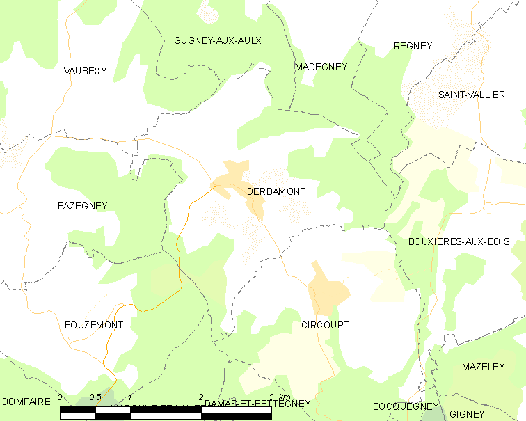 Map of French municipality Derbamont